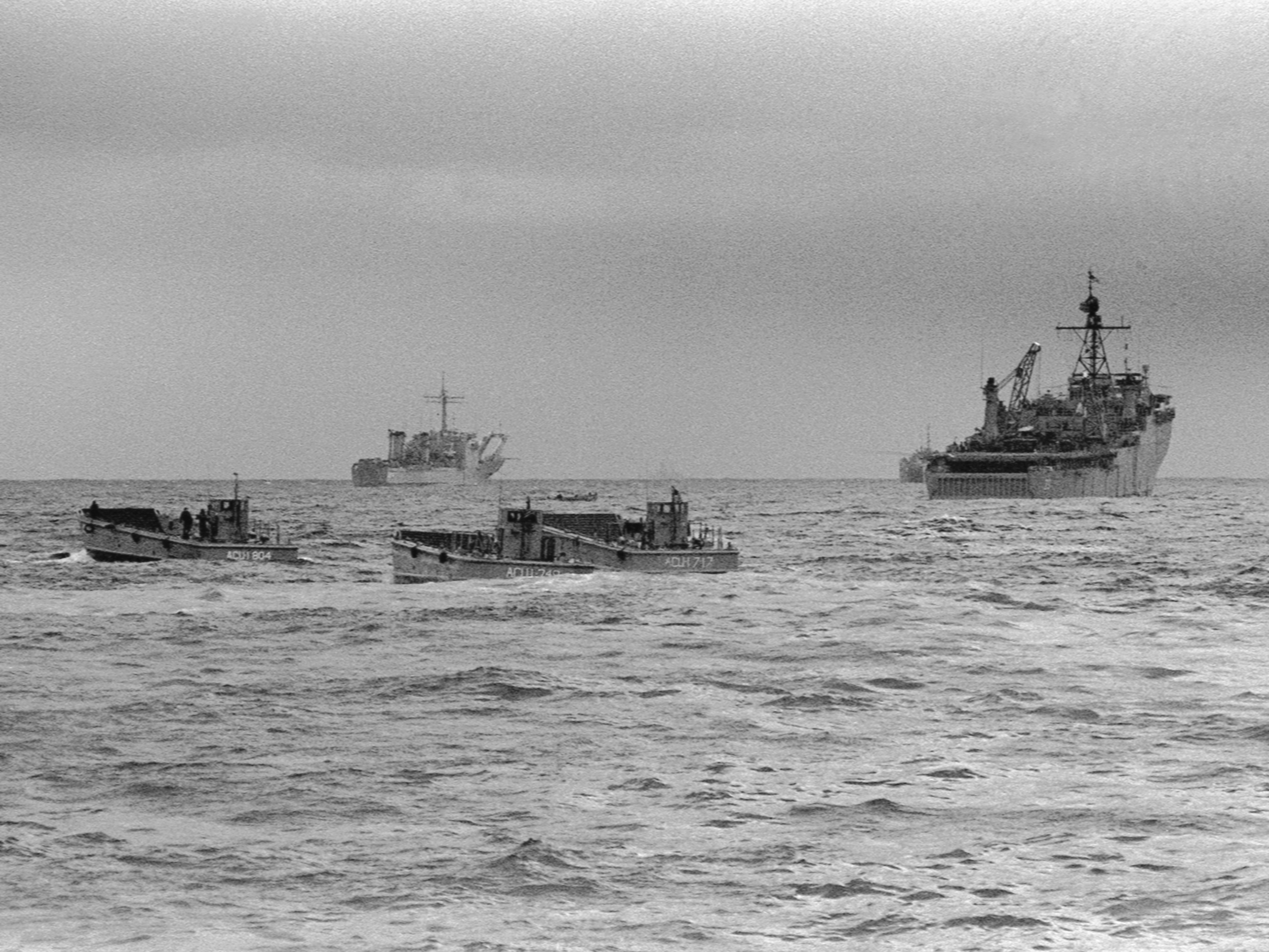 U.S. Navy landing craft from Assault Craft Unit 1 (ACU-1) approach Tok Sok Ri Beach, South Korea, while the dock landing ship USS Monticello (LSD-35) and a tank landing ship are anchored off shore during exercise "Team Spirit '82".